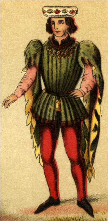 French nobleman (1410)